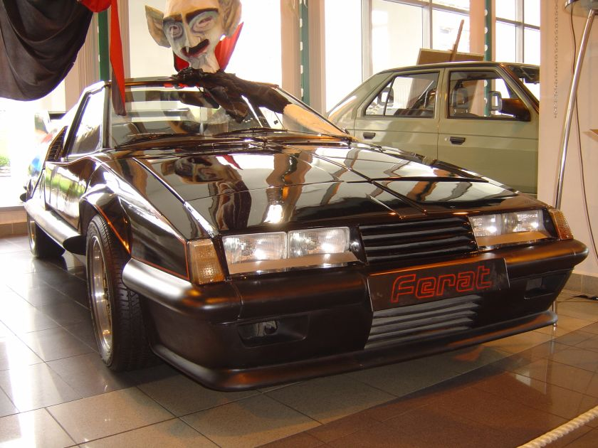 Škoda Super Sport Type 724 (1971) at the Škoda Muzeum. It was originally white, but was given black paint and some minor restyling to be used as Ferat Vampire in a horror movie.